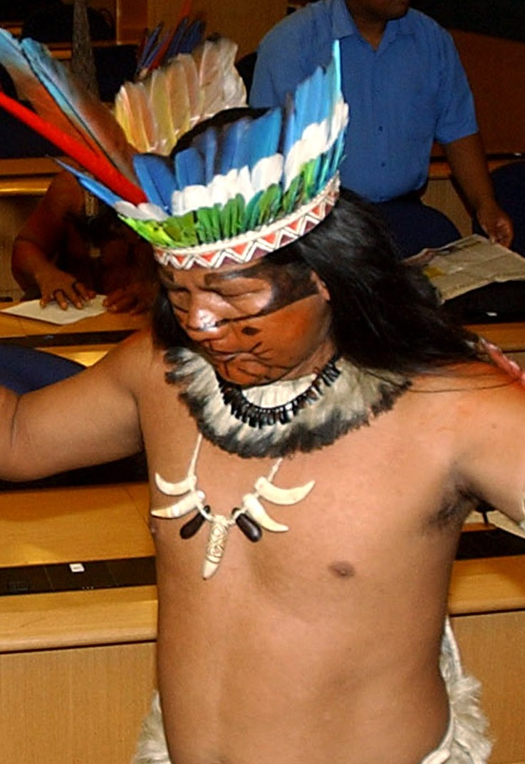 Mundurucu chief